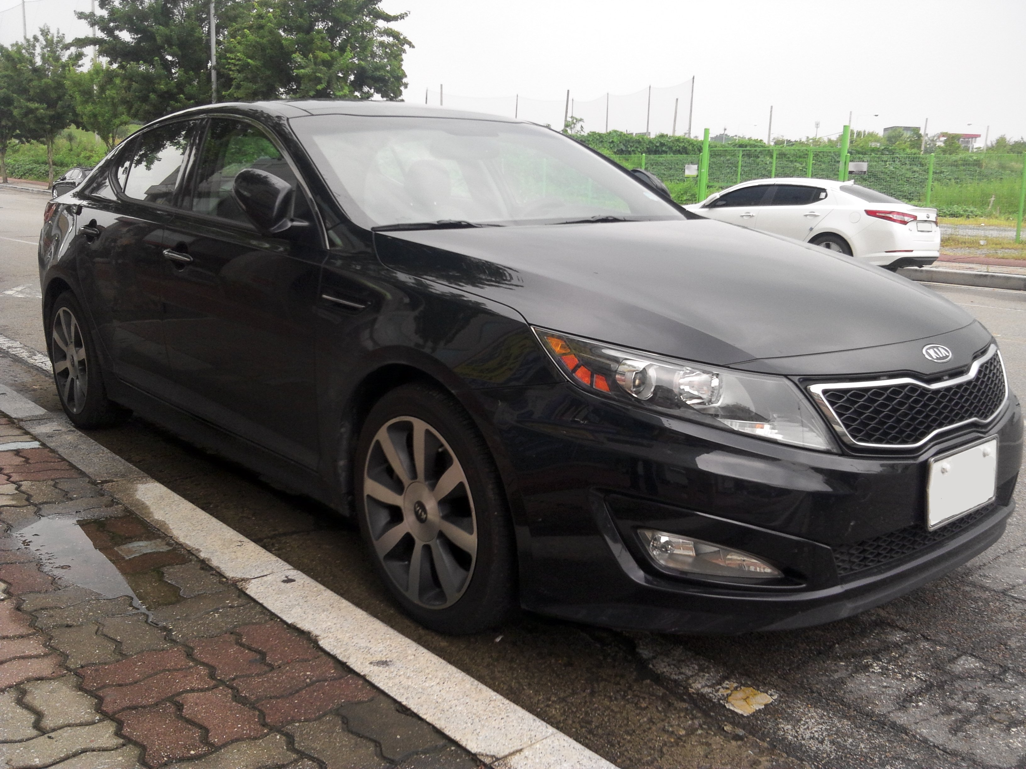 Front-right side of Kia Optima.